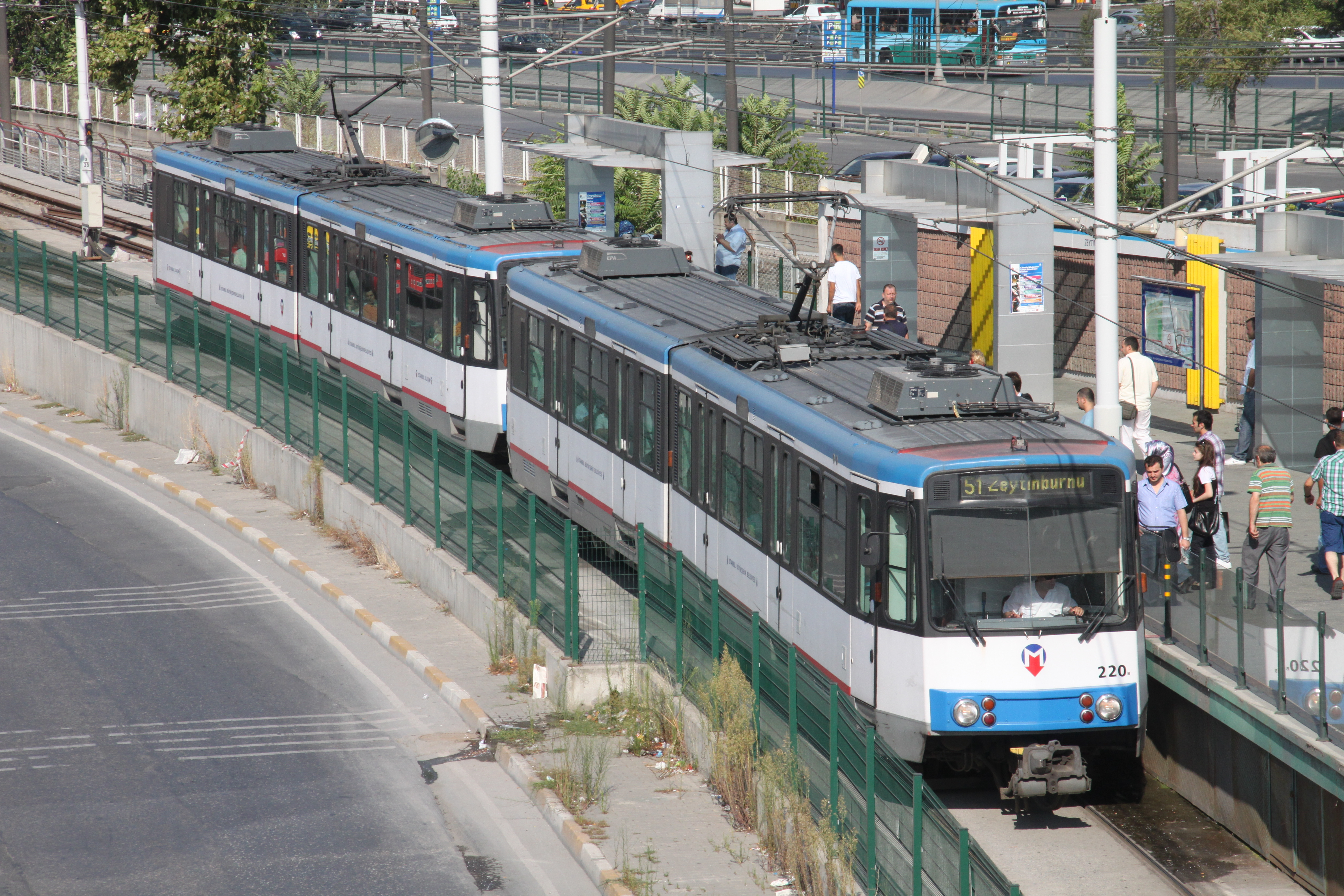 2 coupled former Cologne Stadtbahn-B trains now running in Istanbul as T2 in Zeytinburnu.